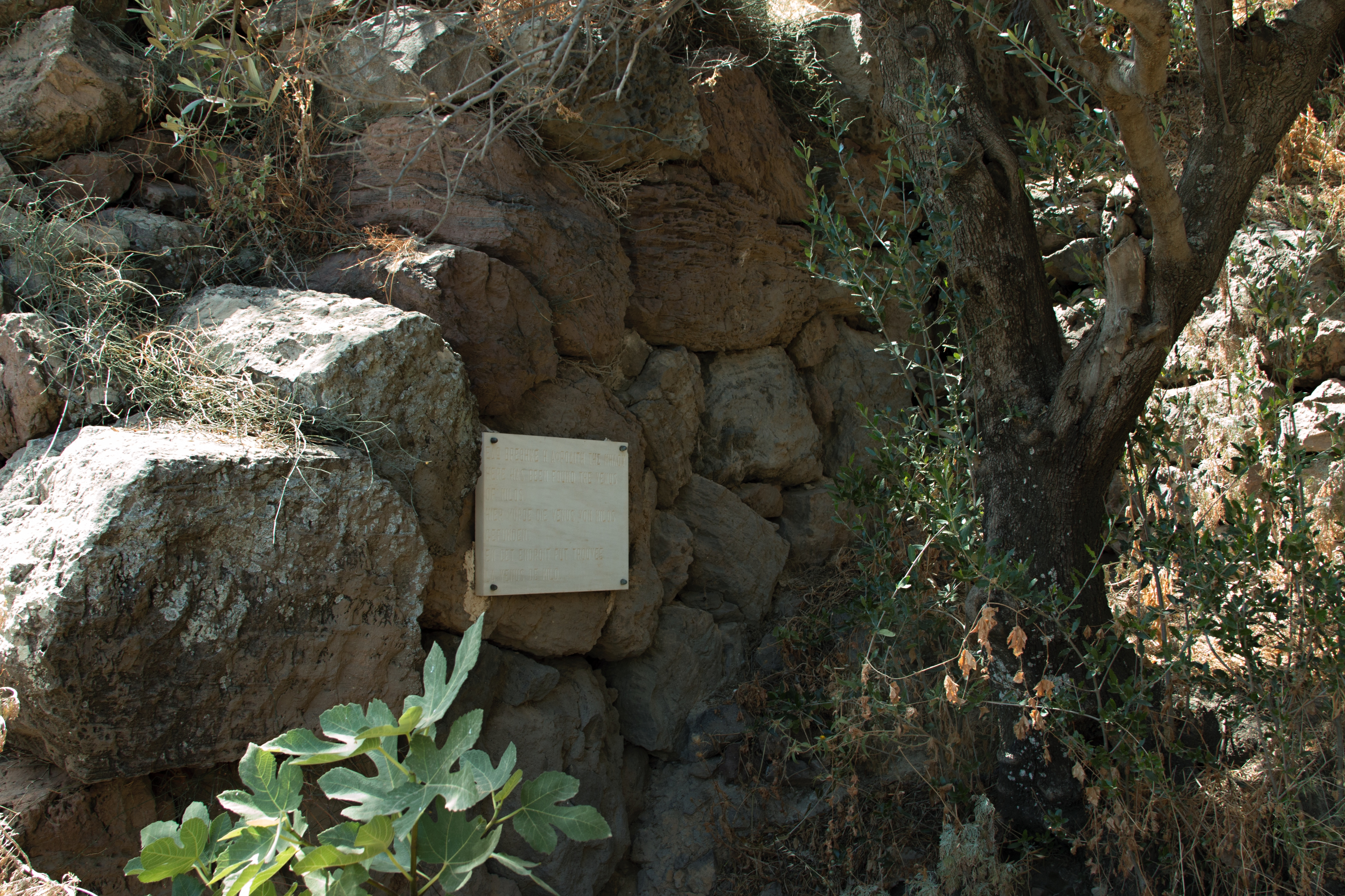 Place of finding of the Venus of Milos. Around Tramythia. Milos, by way from Plaka to the excavations.